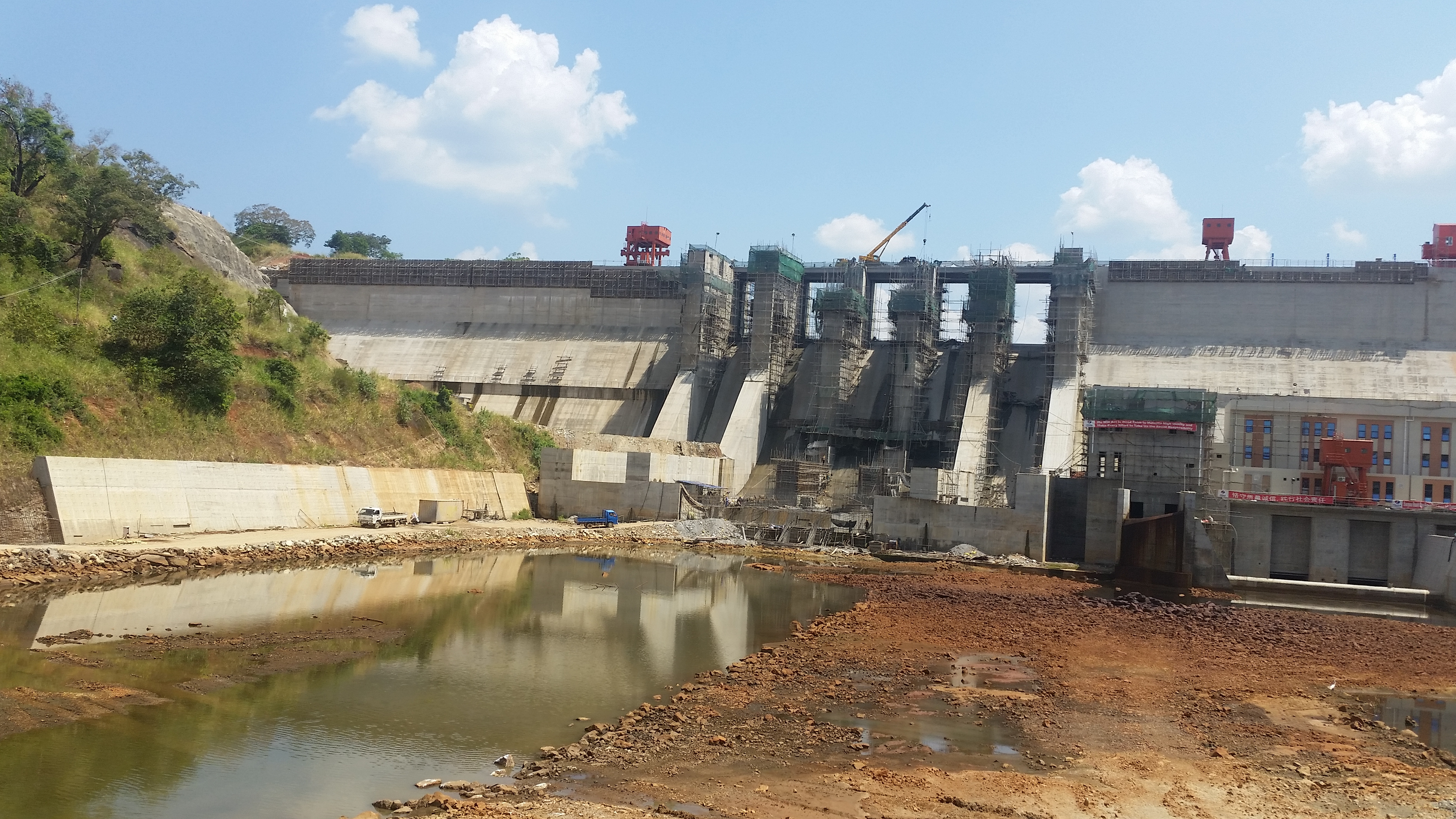 Moragahakanda Dam currently under construction. Photo Taken on 2017.05.01